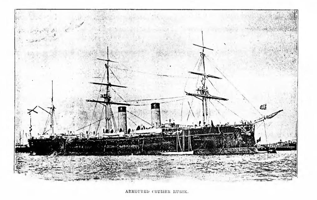 Russian cruiser Rurik (1892) from the book of Frederick T. Jane (1865-1916), Imperial Russian Navy...